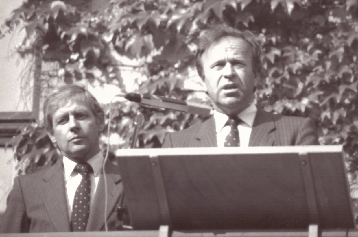 District administrator of Wackersdorf, Hans Schuierer, together with Kurt Petzold (l.), mayor of Schweinfurt, during a demonstration against nuclear energy, in the eighties.